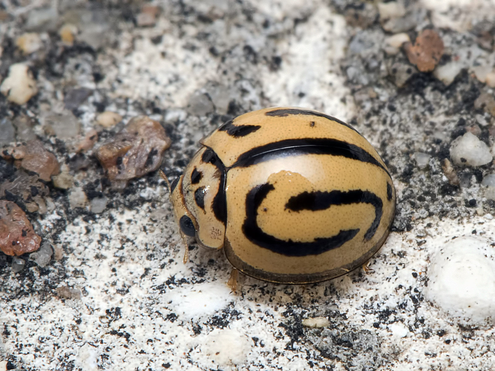 Anegleis cardoni is a medium-sized ladybird beetle, and is known to feed on a variety of aphids, e.g., Brevicoryne brassicae (Hemiptera: Aphididae), Macrosiphum miscanthi (Takahashi), Macrosiphum pisi, as well as Aphis gossypii, Aphis craccivora and Lipaphis erysimi and many other aphids. Futhermore, it has also been reported to prey on whiteflies and scale insects. Fourth instar larvae of Anegleis cardoni may be considered the most efficient predatory stage in aphid management strategies.